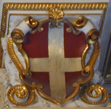 Coat of arms of the bishopric of Cammin, Schwerin